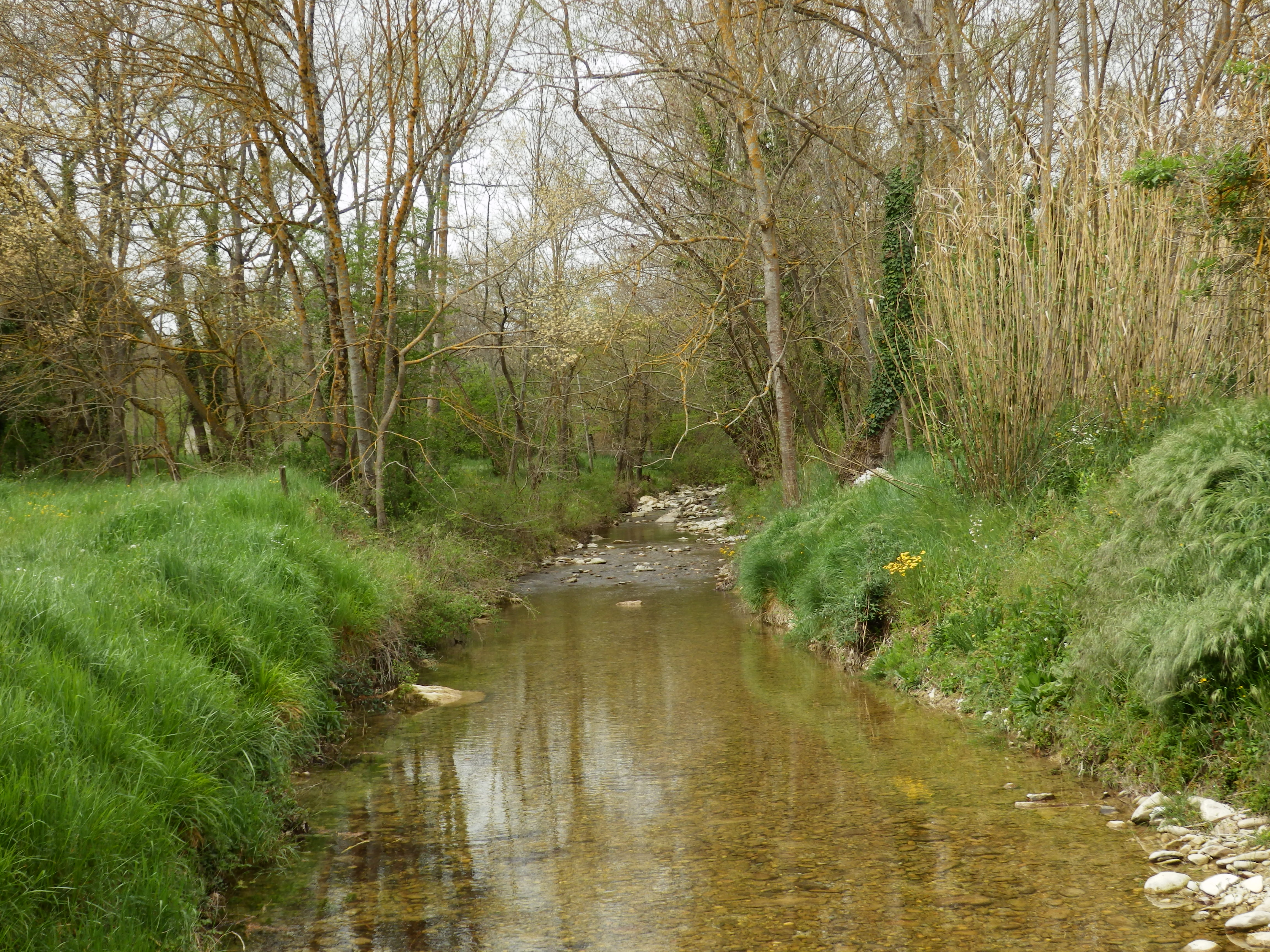 Corneilla river in Bouriège, Aude, France